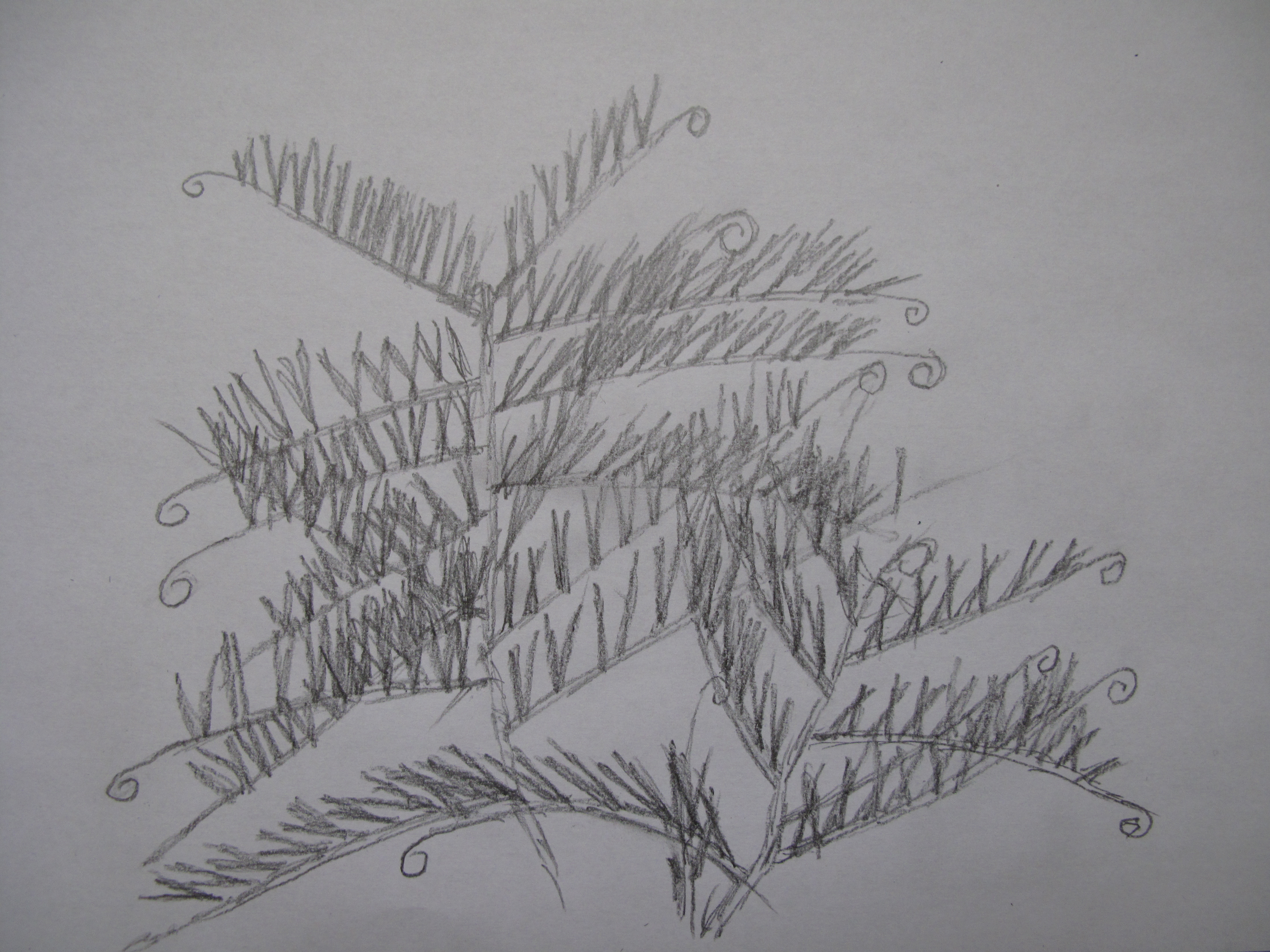 Folliage of Cicer Canariense - drawing.